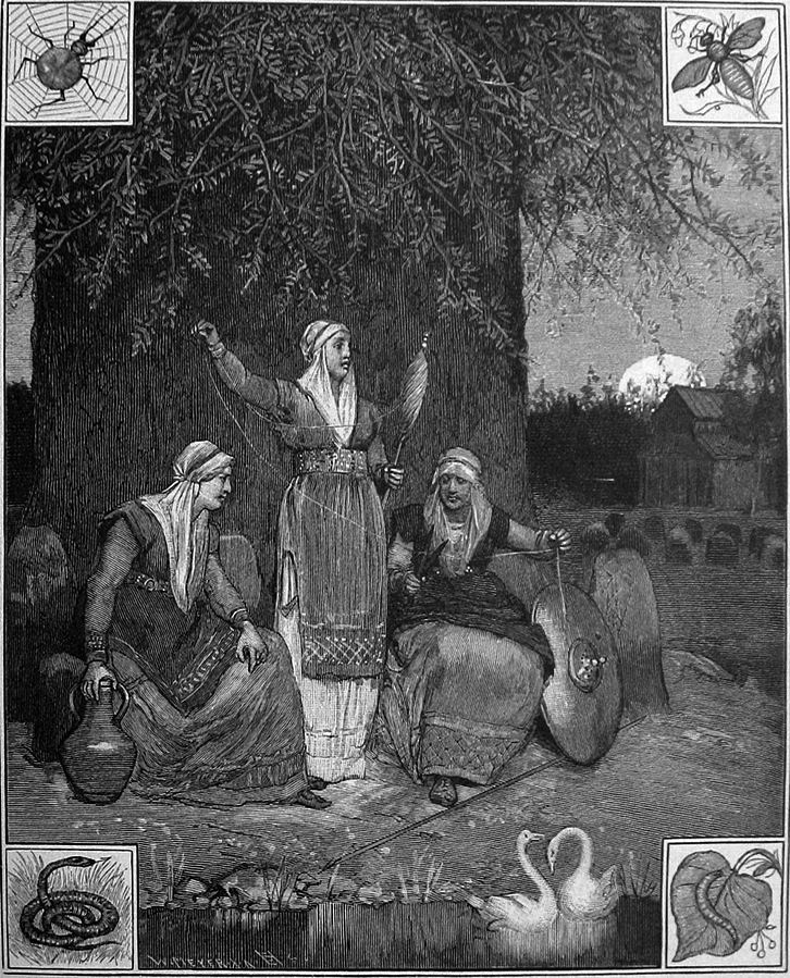 The Norns spin their tapestry at the roots of Yggdrasil.